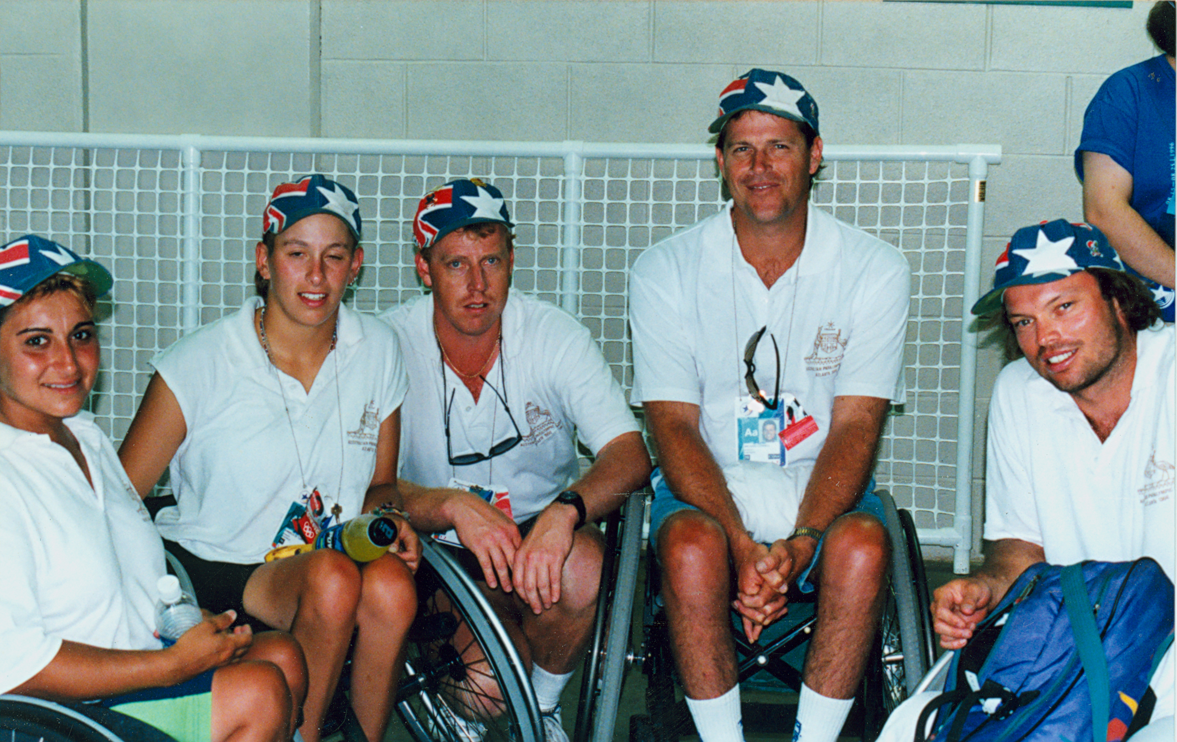 Australian athletes at the Atlanta 1996 Paralympic Games